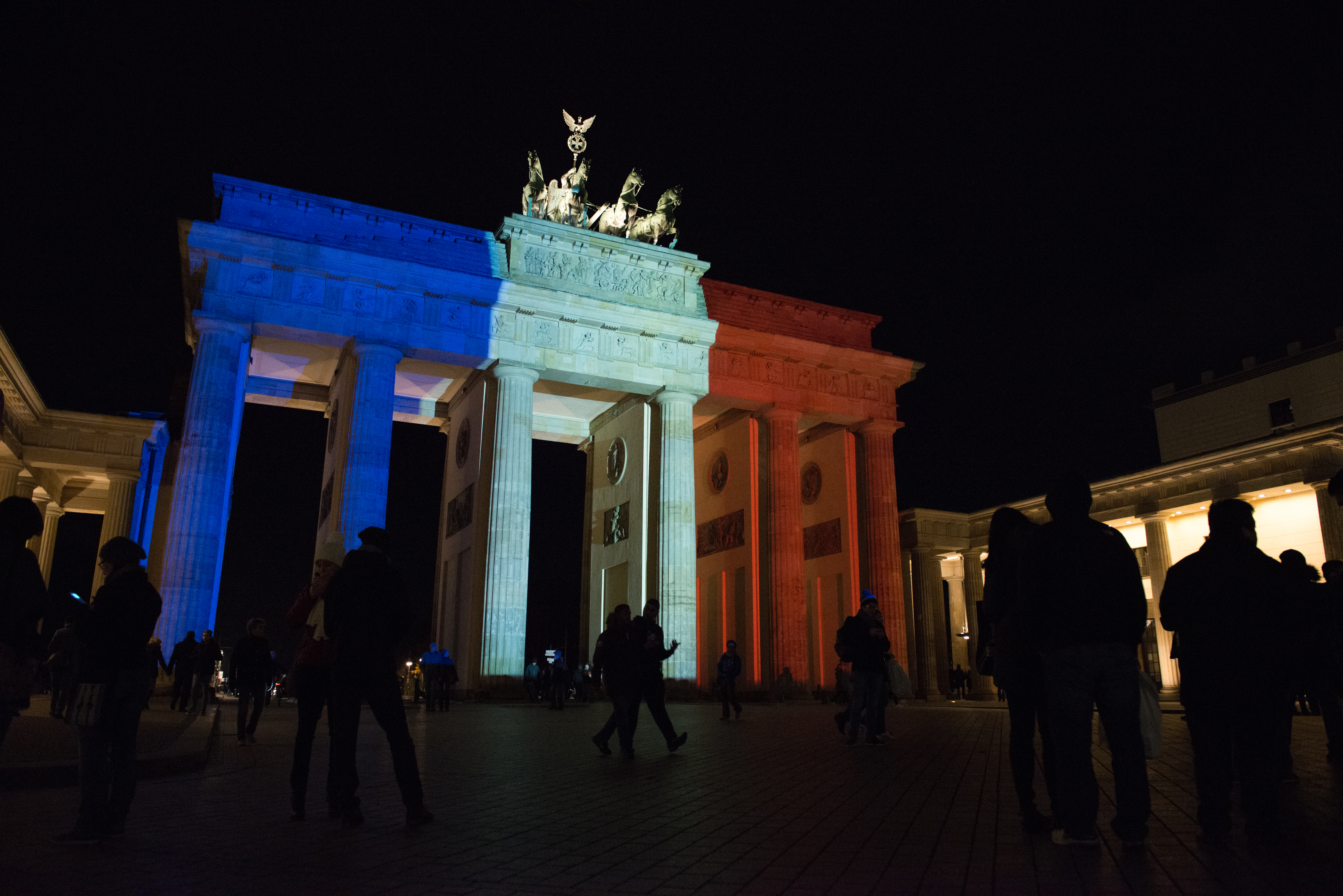 Brandenburg Gate in French flag colours after November 2015 Paris attack.